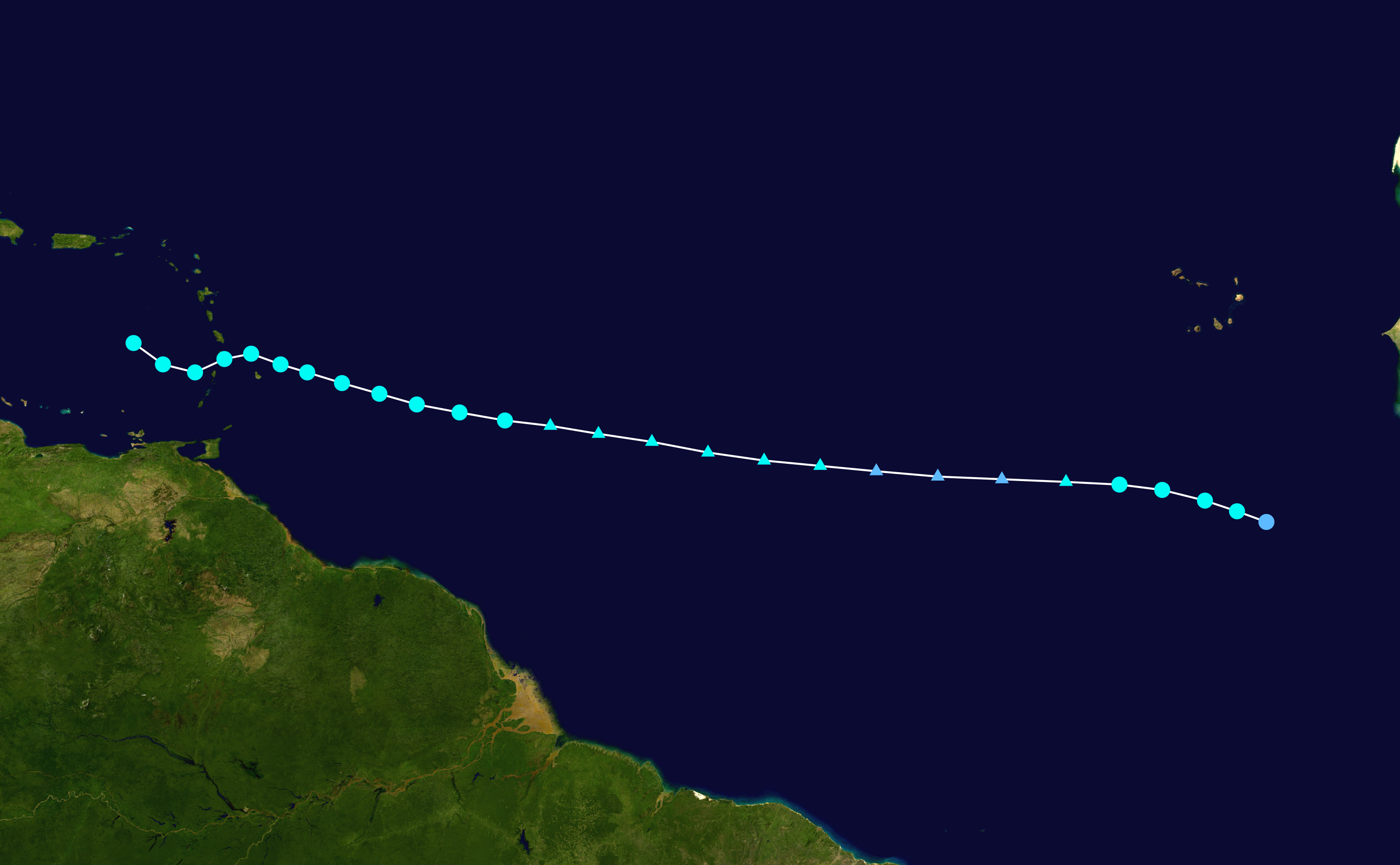 Track map of Tropical Storm Kirk of the 2018 Atlantic hurricane season. The points show the location of the storm at 6-hour intervals. The colour represents the storm's maximum sustained wind speeds as classified in the Saffir–Simpson scale (see below), and the shape of the data points represent the nature of the storm, according to the legend below. Saffir–Simpson scale Tropical depression≤38 mph≤62 km/h Category 3111–129 mph178–208 km/h Tropical storm39–73 mph63–118 km/h Category 4130–156 mph209–251 km/h Category 174–95 mph119–153 km/h Category 5≥157 mph≥252 km/h Category 296–110 mph154–177 km/h Unknown Storm type Tropical cyclone Subtropical cyclone Extratropical cyclone / Remnant low / Tropical disturbance / Monsoon depression